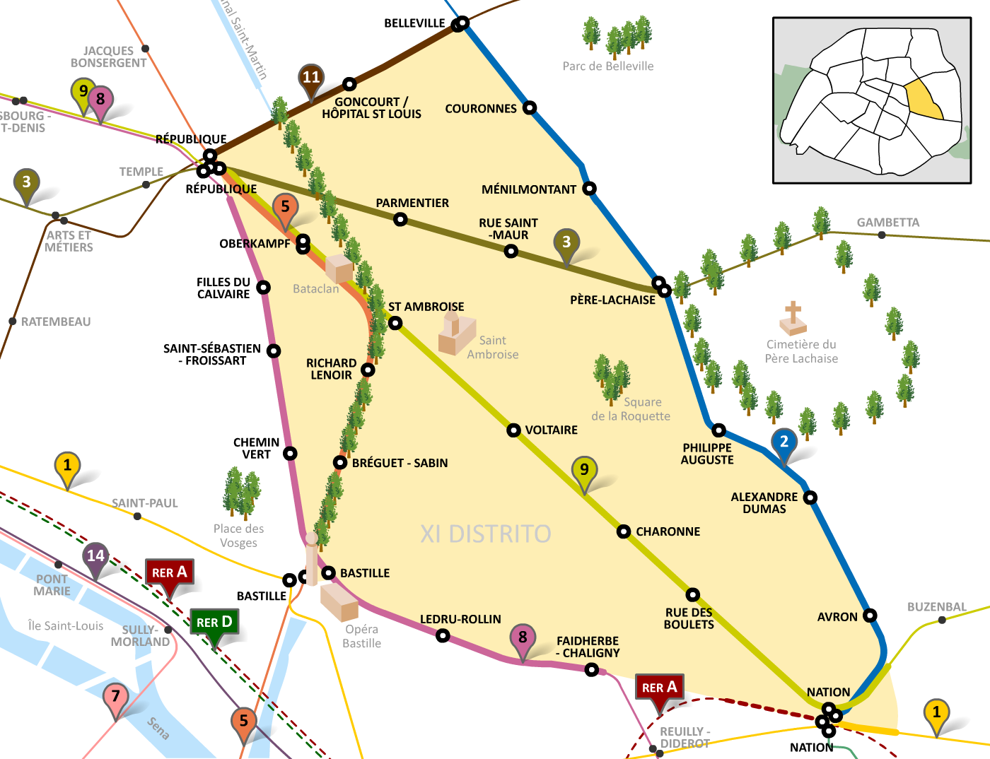 Paris 11th district (France), metro (subway) lines and RER. In spanish